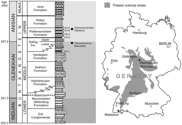 Stratigraphy of the German Buntsandstein (left), showing the stratigraphic levels at which Ctenosauriscus and the Waldshut ctenosauriscid were collected. Map of Germany (right) showing Triassic outcrops and the Bremketal and Waldshut localities.